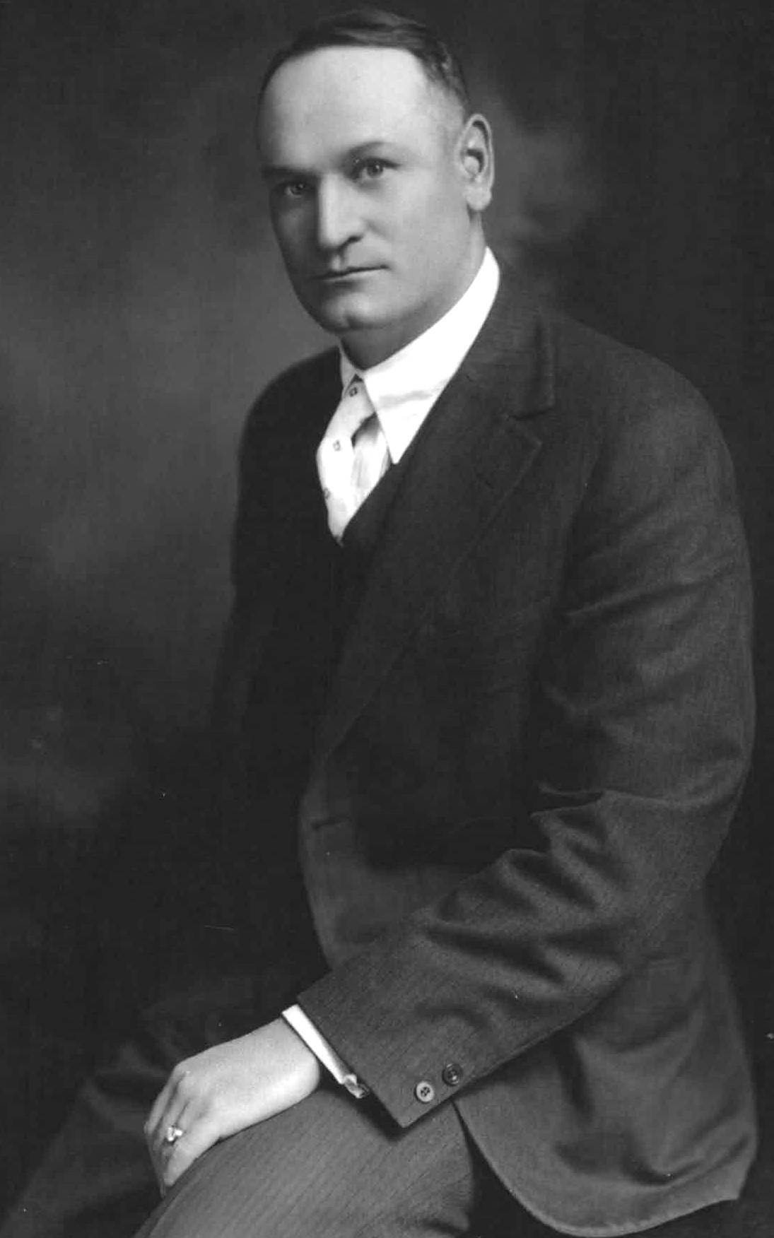 Professional baseball coach and manager Walt McCredie